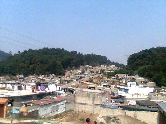 Vista del centro de la colonia el Hielo, en Huixquilucan